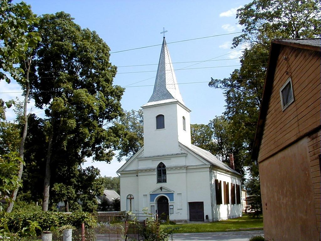 Jēkabpils Saint Michael Evangelical Lutheran ChurchLatviešu: Jēkabpils Svētā Miķeļa evaņģēliski luteriskā baznīca